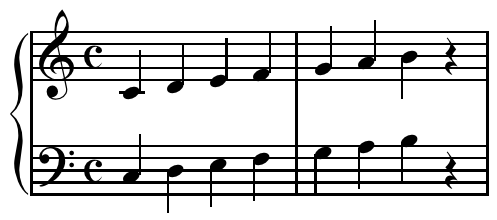 Example of a piano staff.